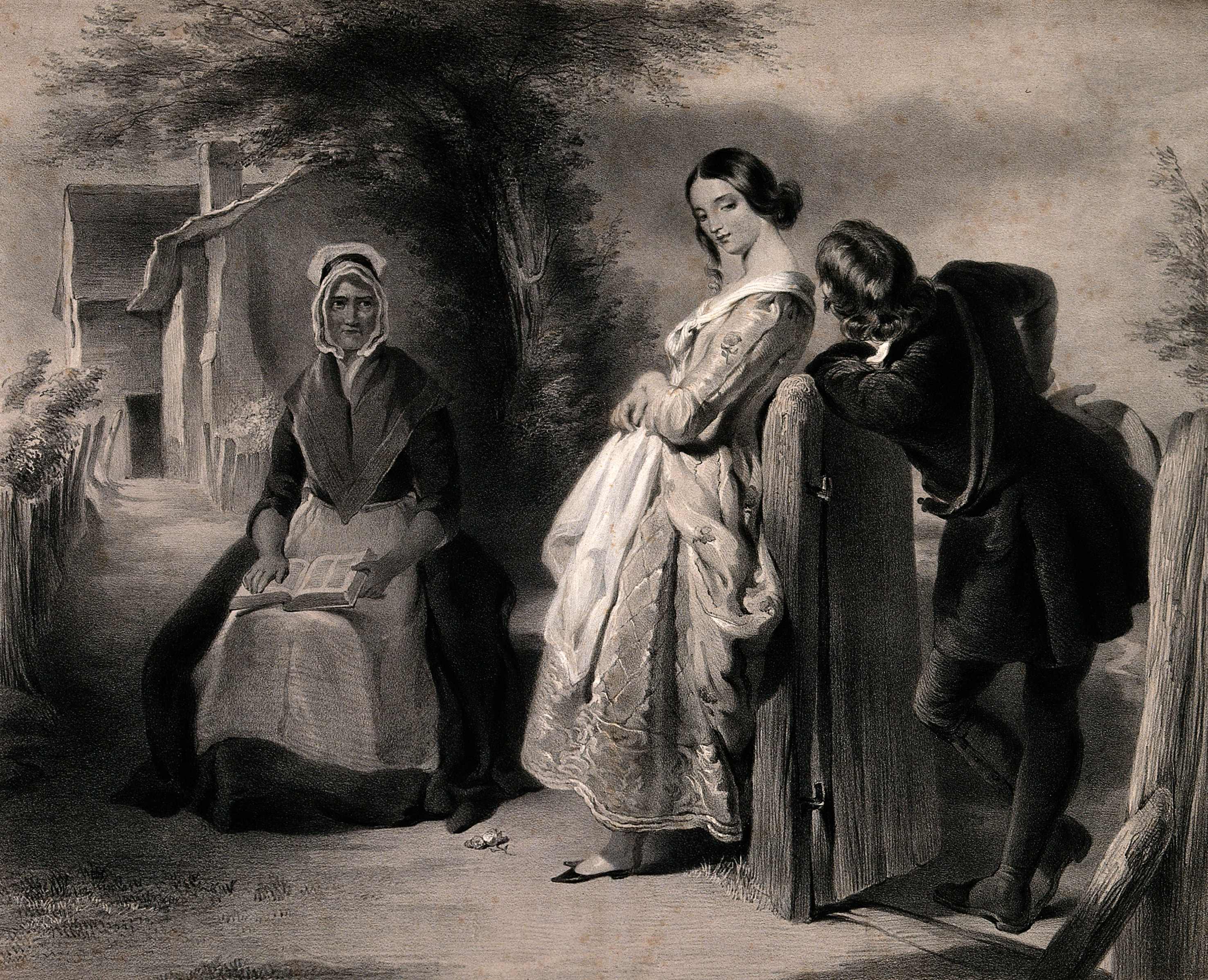 A older womam acts as chaperone to a girl who is being courted by a young man. Lithograph. Iconographic Collections